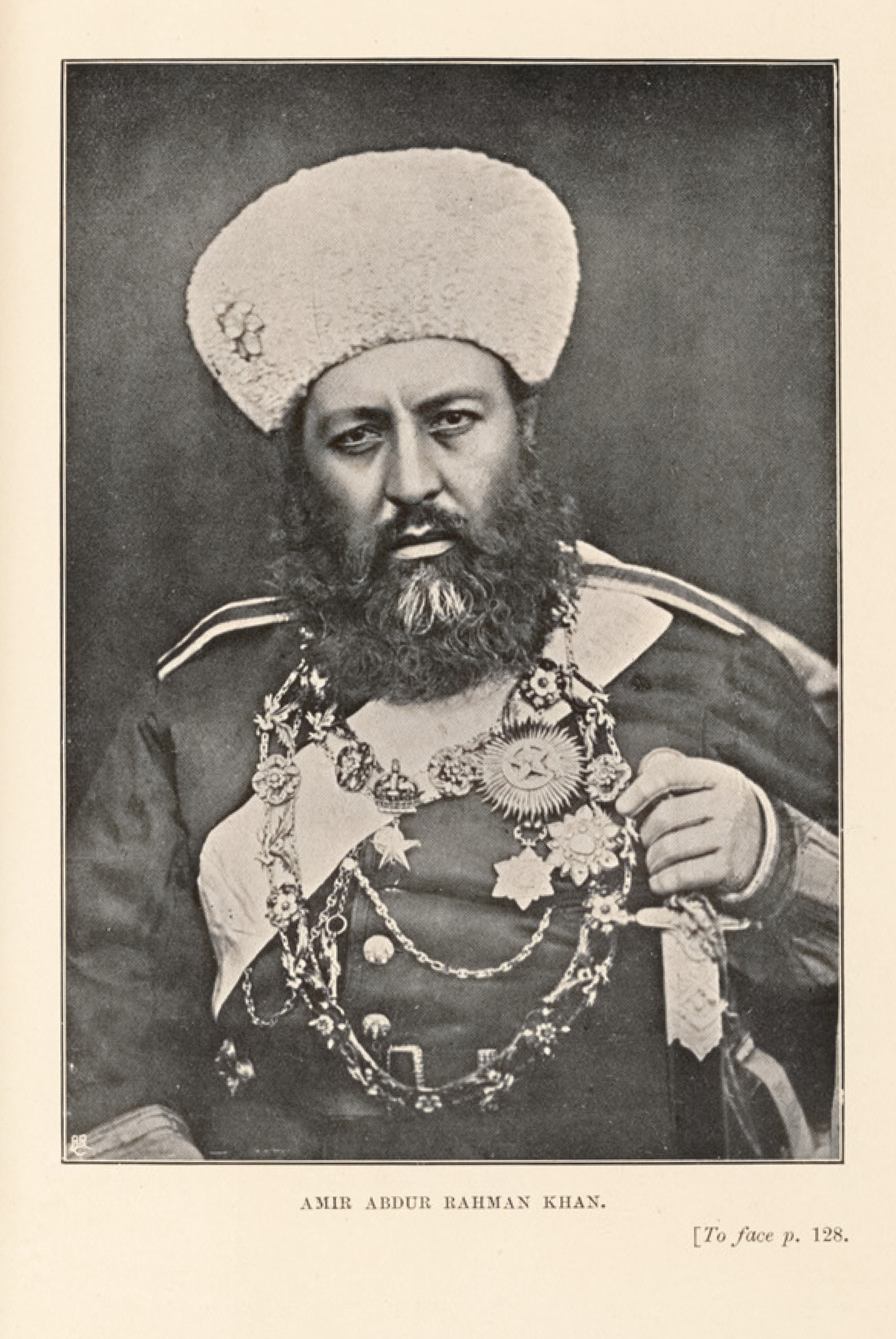 Abdur Rahman Khan, King of Afghanistan from 1880 to 1901